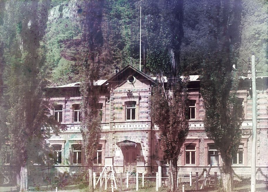 Warehouse for mineral water, Borzhom.